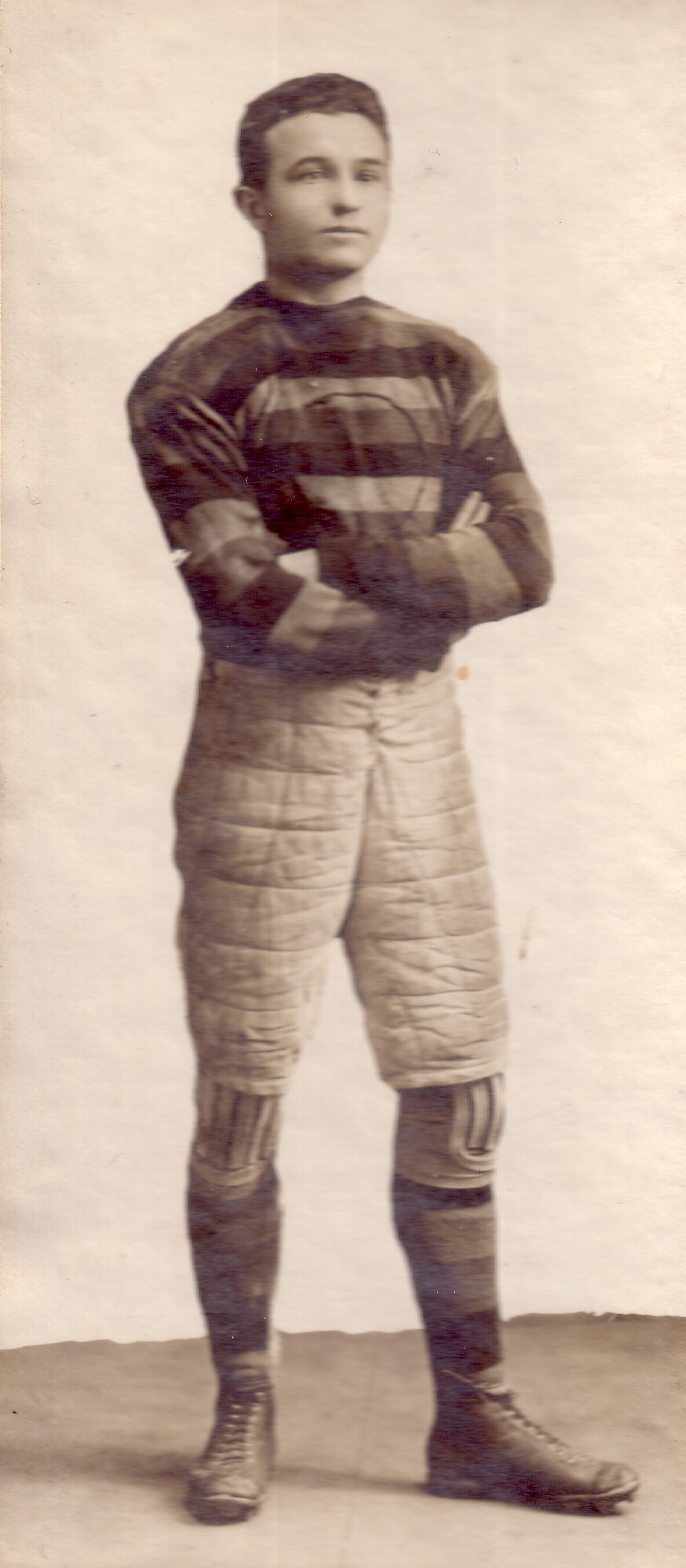 Photograph of Alfred Edwin "Eddie" McKay, taken in 1915.